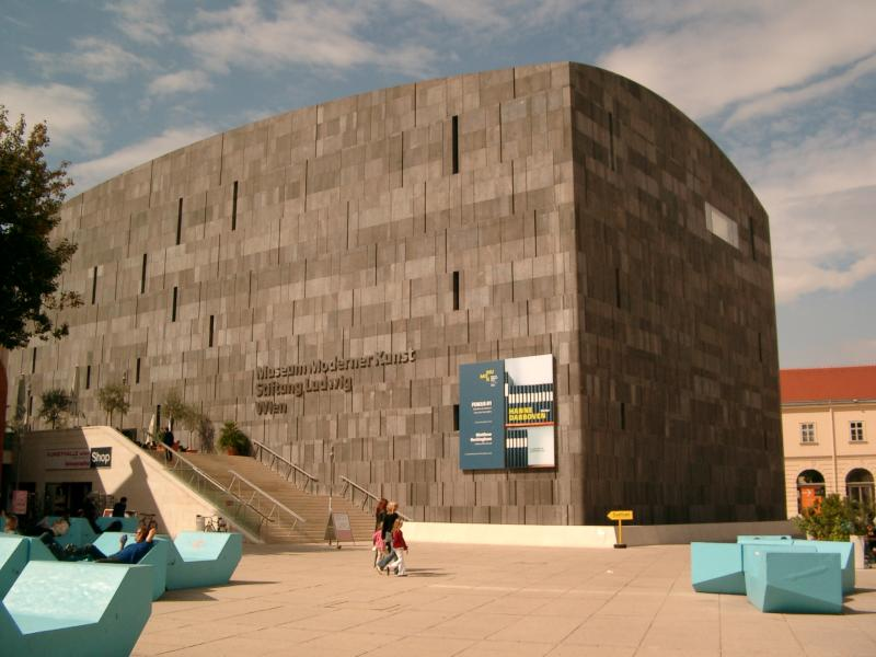 Austria, Vienna, Museum Moderner Kunst Stiftung Ludwig Wien